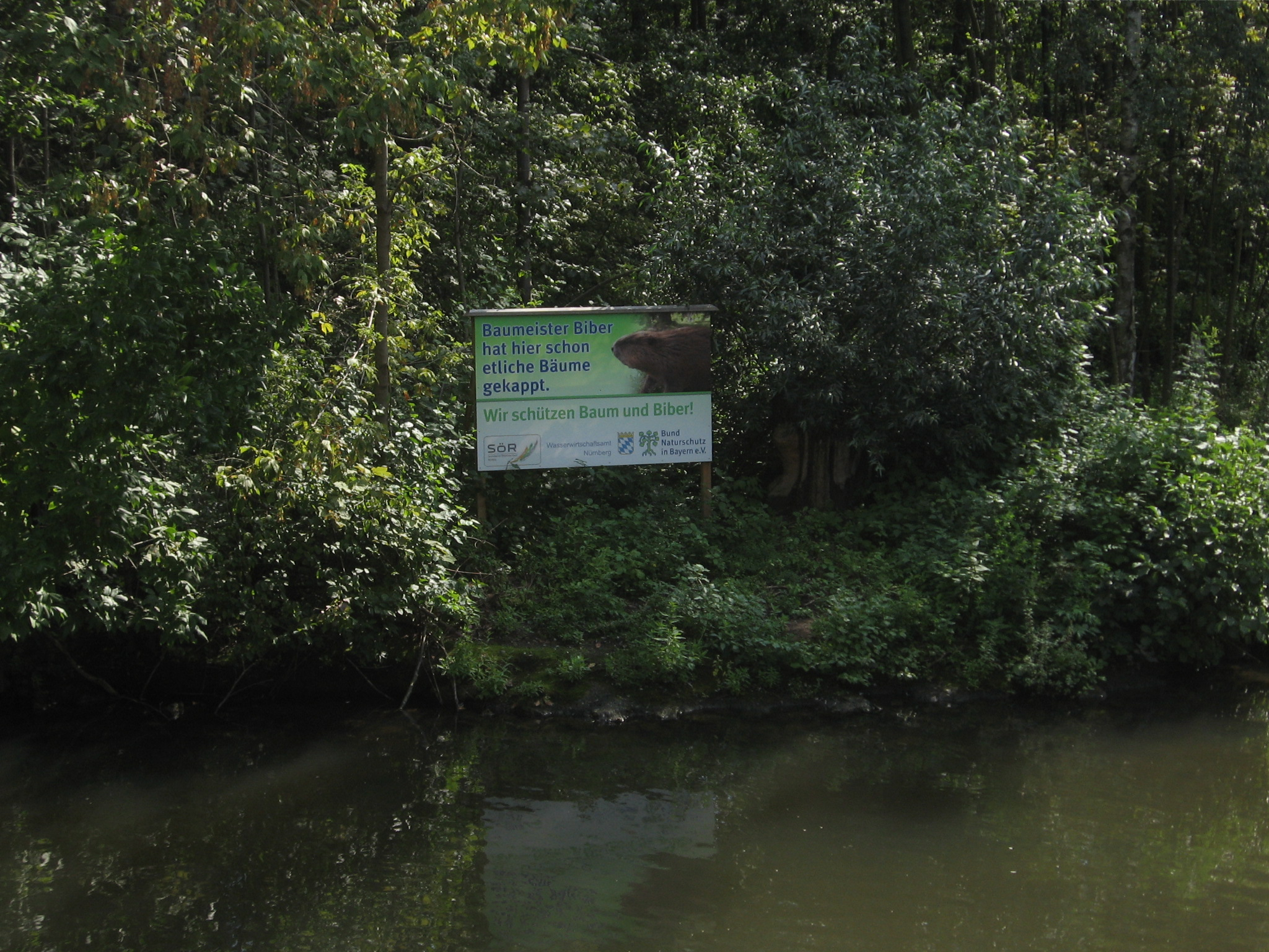 Shield to protect the beaver, river Regnitz in downtown Nürnberg (Germany